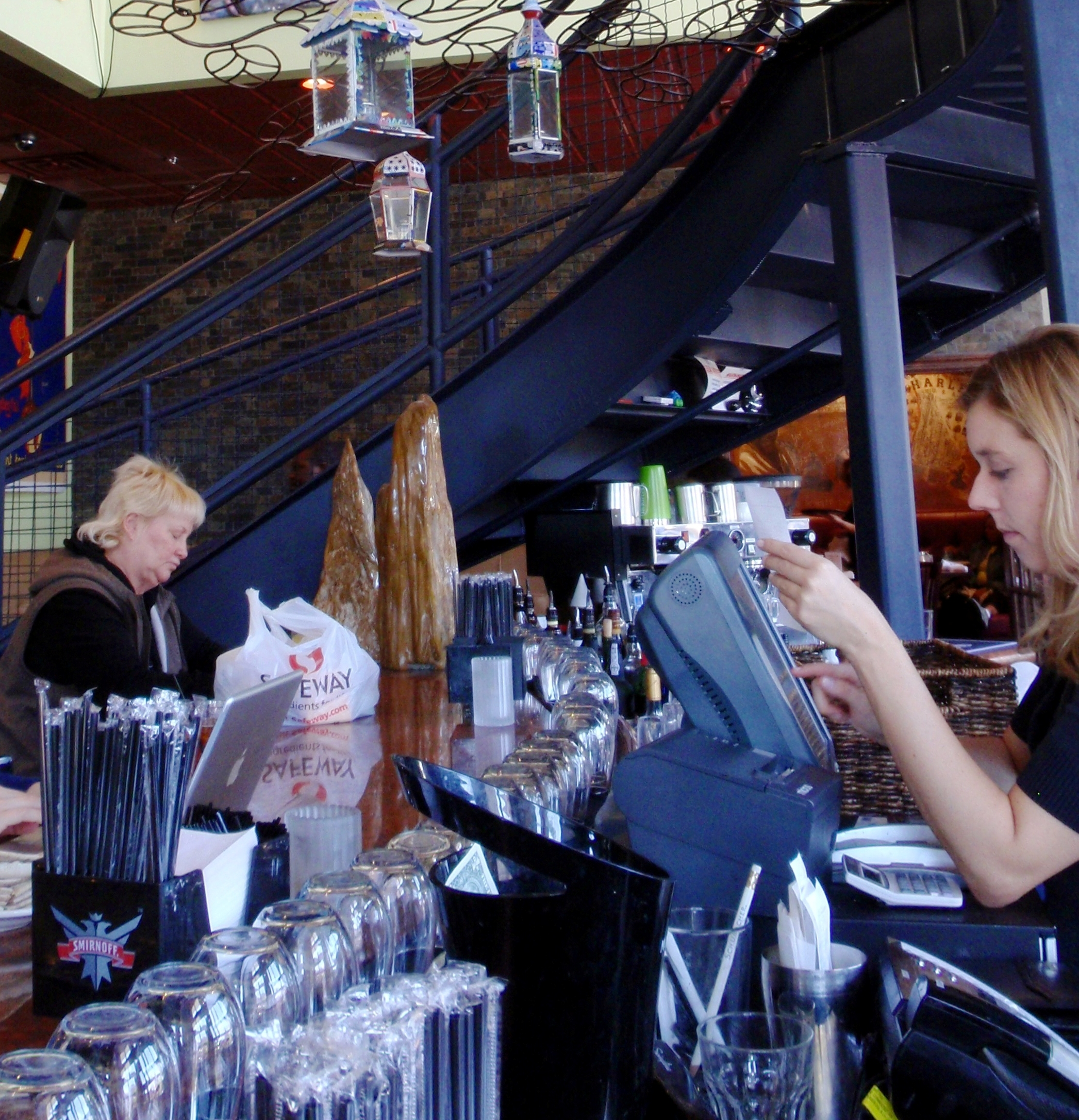 Interior stairs